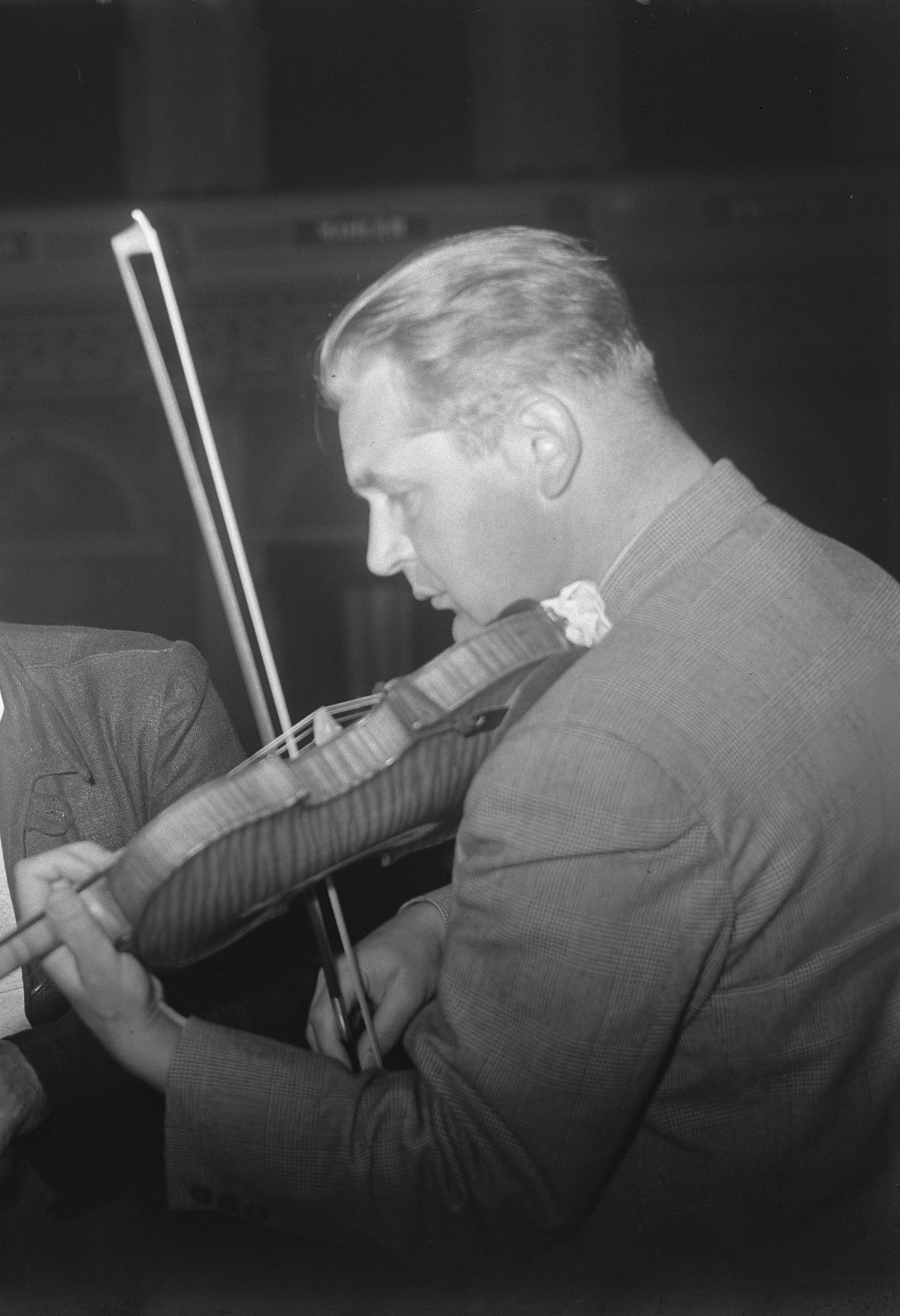 The Dutch violinist Jan Damen